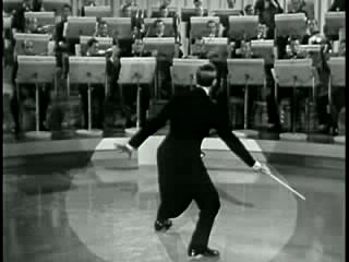 Movie screenshot of Fred Astaire dance-conducting the Artie Shaw Orchestra in the "Hoe Down The Bayou/Poor Mr. Chisholm" routine from Second Chorus